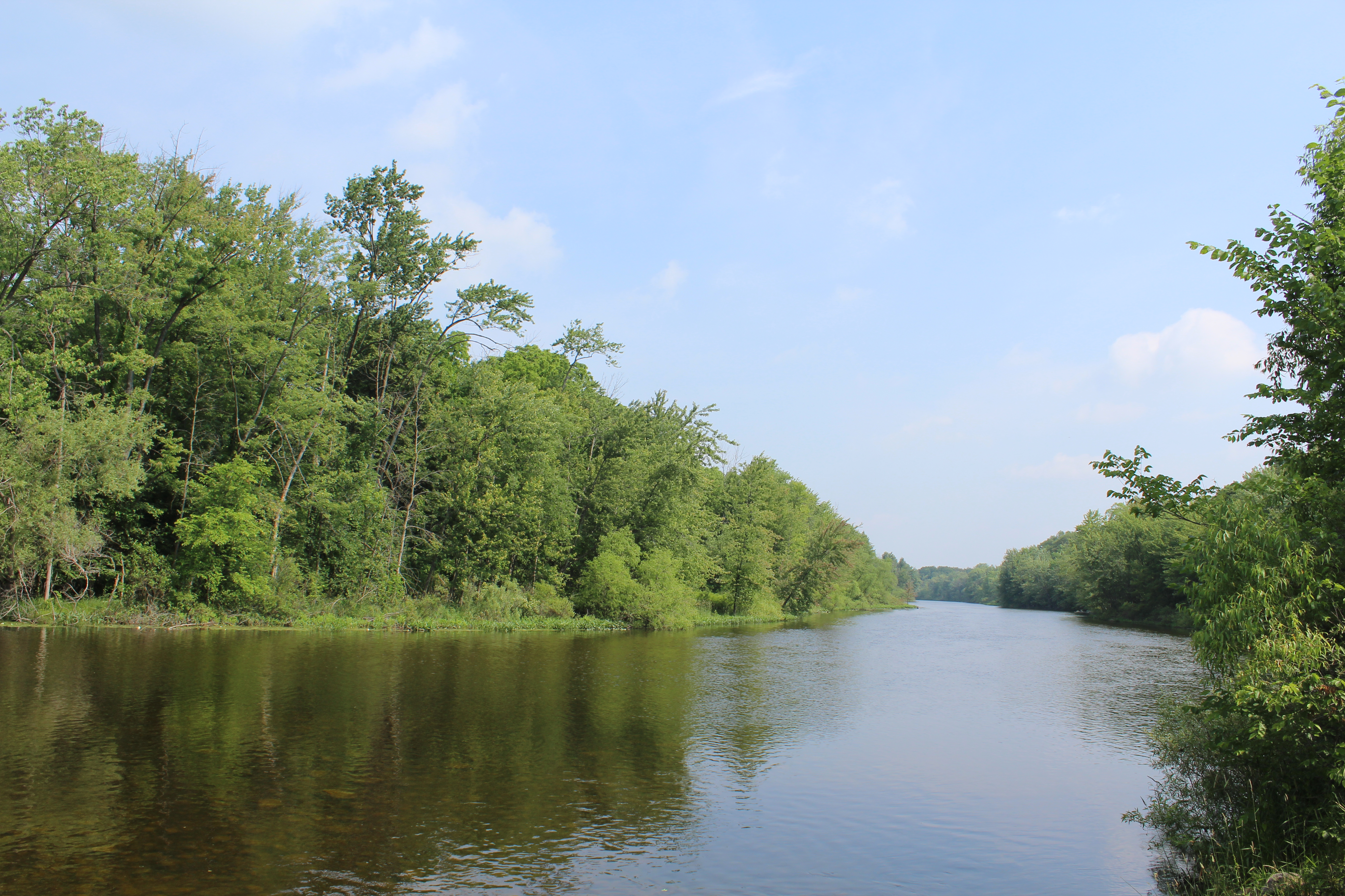 Huron River in Hudson Mills Metropark, Dexter Township, Michigan. - OpenStreetMap(Info)